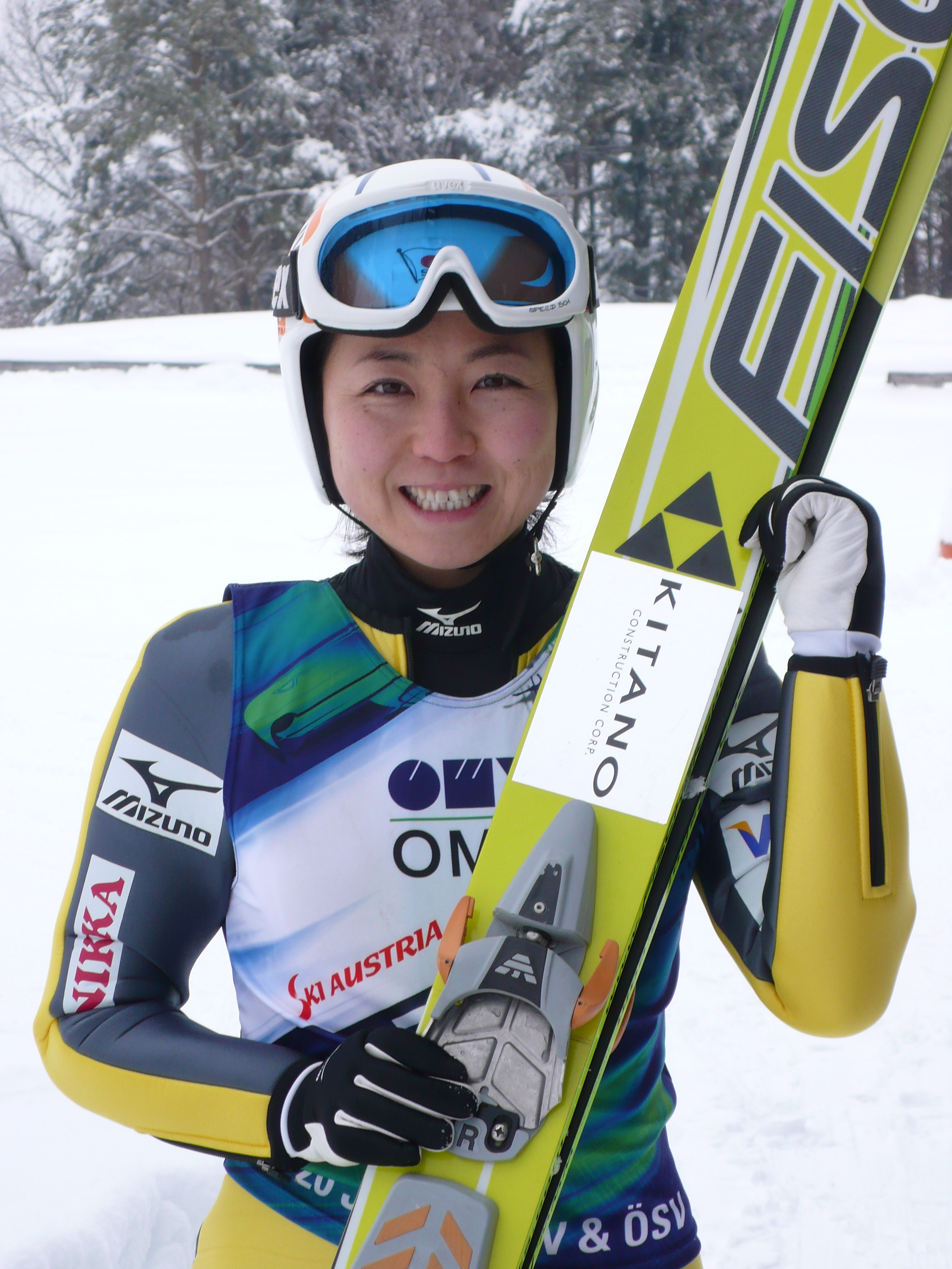 Rieko Kanai, at the Ski jumping Continental Cup in Villach on the 2010-02-12.